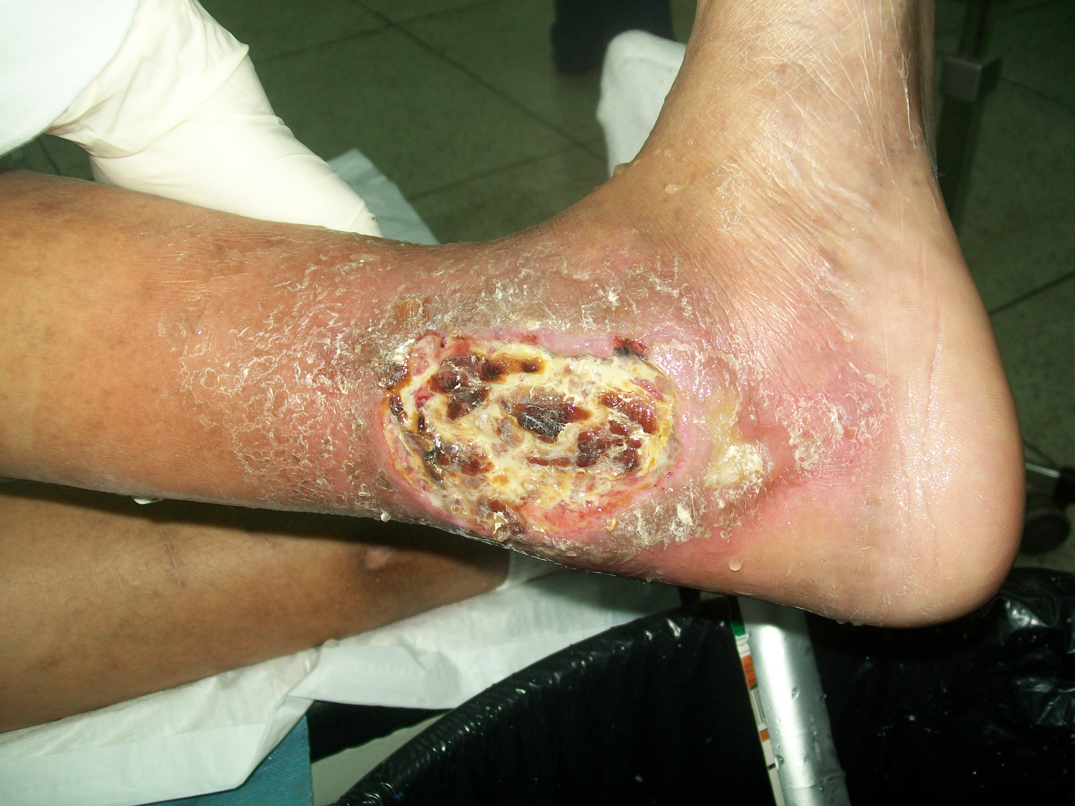 A 55-year-old diabetic male presented with a chronic left ankle ulcer of about 3 months duration. Photograph of the wound as it presented to the emergency room prior to debridement and arterial revascularisation.